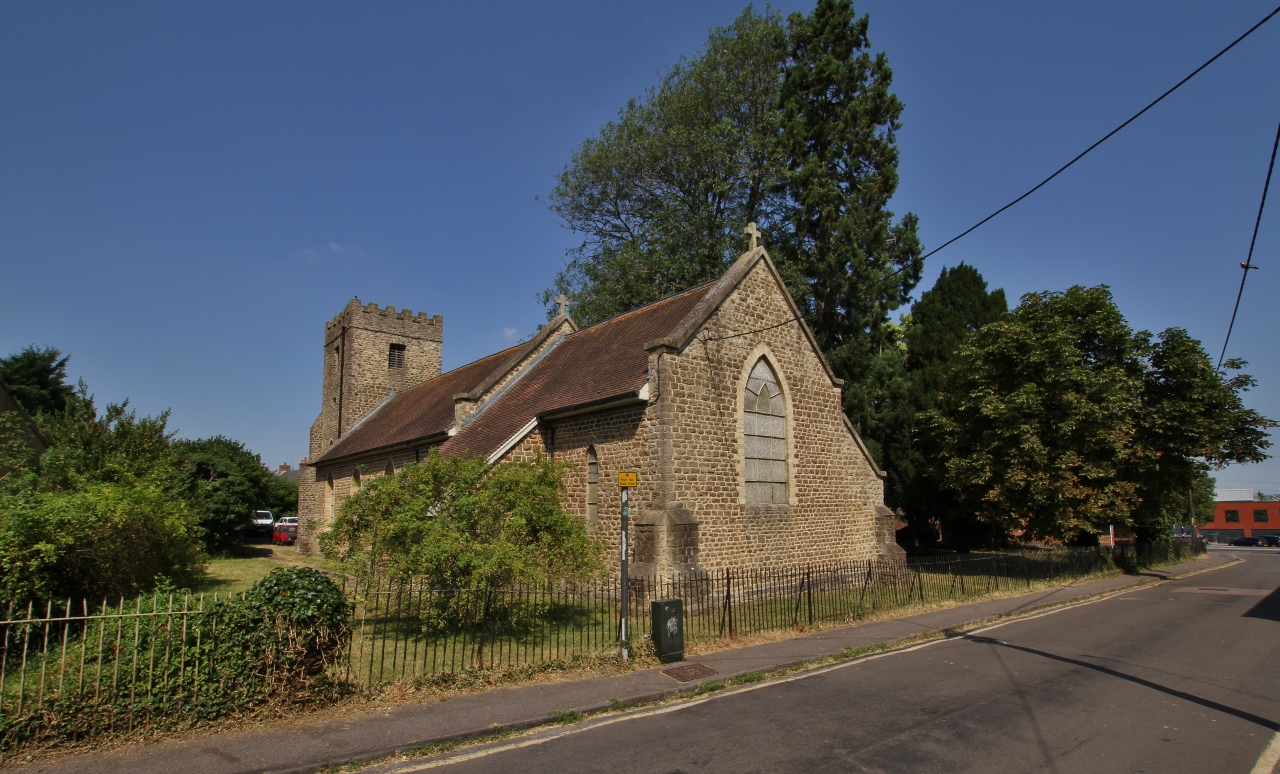 The Northbourne Centre, Didcot, Oxfordshire (formerly Berkshire), seen from east-southeast from High Street. Consecrated in 1890 as St Peter's parish church. Deconsecrated in 1977 and turned into a community centre.